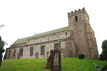 Easington, Co. Durham, the Church of St Mary The Virgin